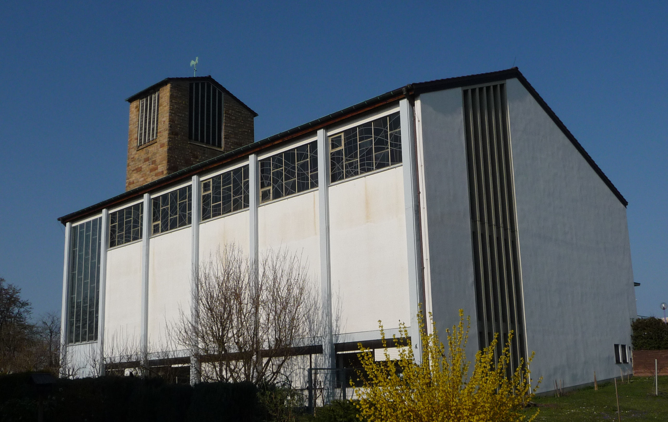 Church in Ludwigshafen, Germany